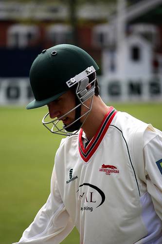 Leicestershire cricketer Sam Cliff leaves the field after scoring 26